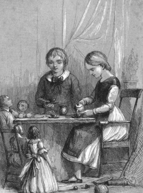 Anna Mary Howitt illustration The Children's Year By Mary Botham Howitt, Anna Mary Howitt